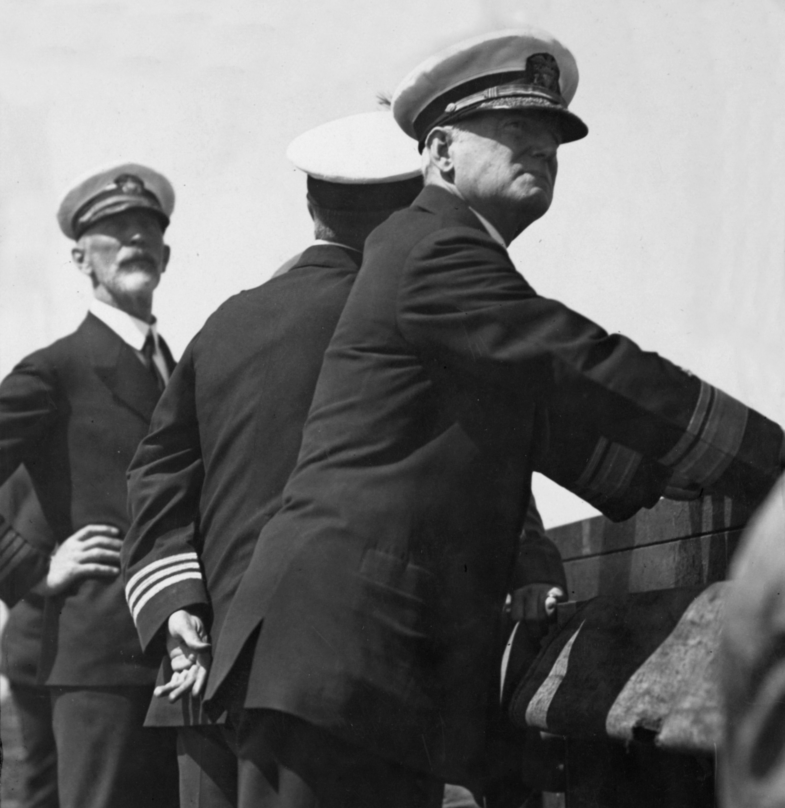 Rear Admiral William A. Moffett, USN, Chief of the Bureau of Aeronautics (right) and Captain Joseph M. Reeves, Commander, Aircraft Squadrons, Battle Fleet (left), observing aircraft operations on board the aircraft carrier USS Langley (CV-1), in September 1926.